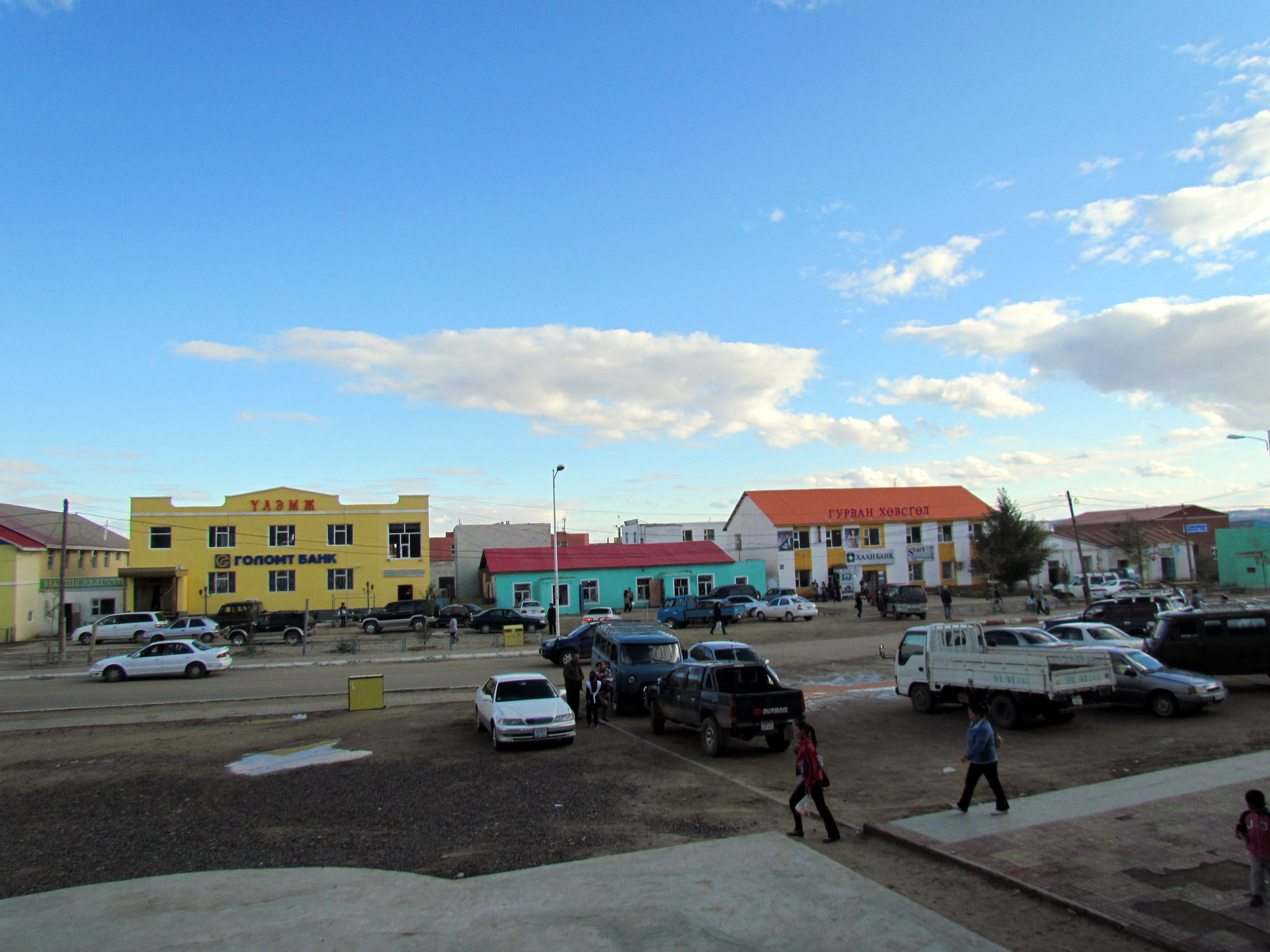 A street in Sainshand, Mongolia